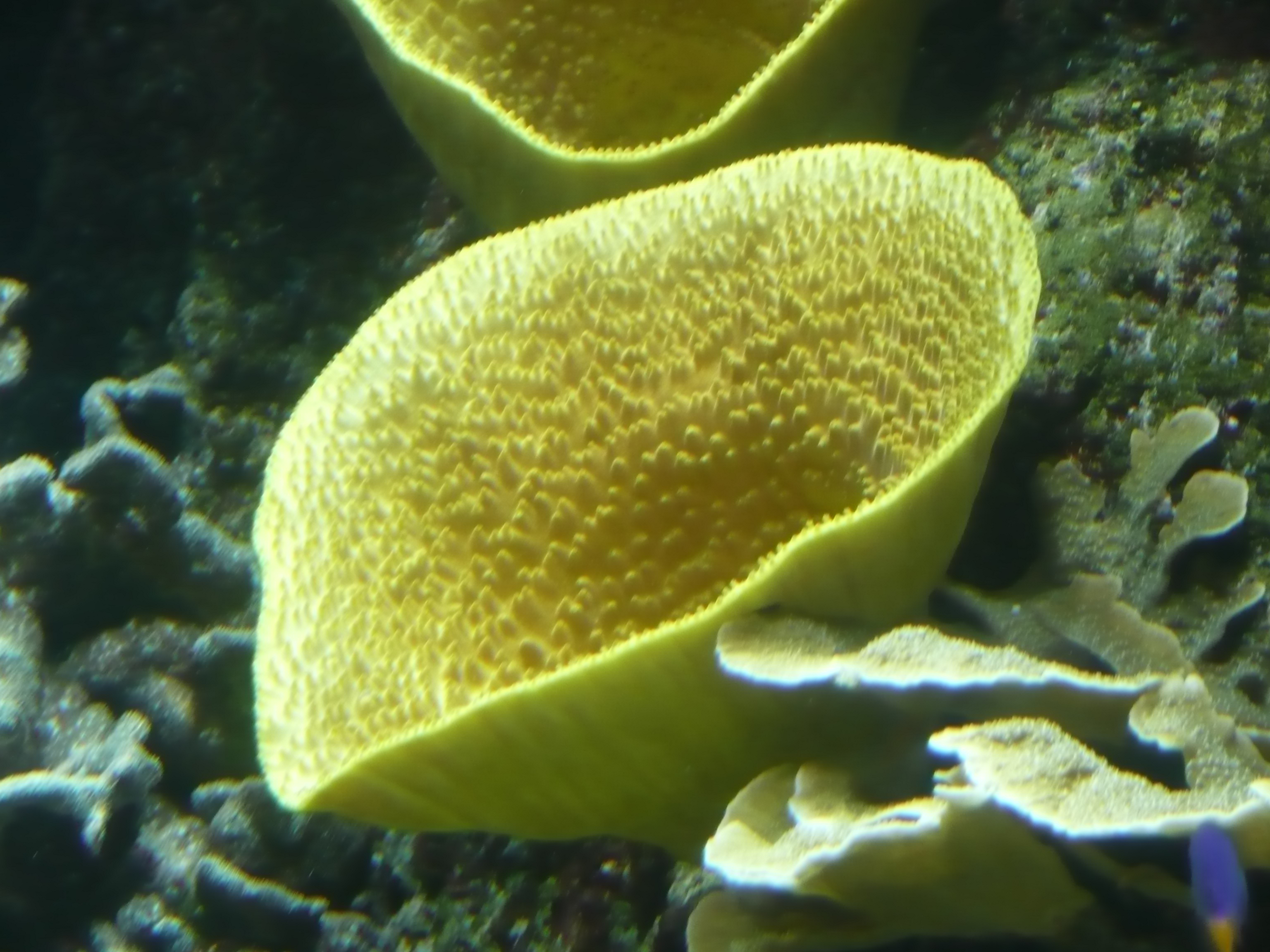 Turbinaria reniformis in the Aquarium de La Rochelle